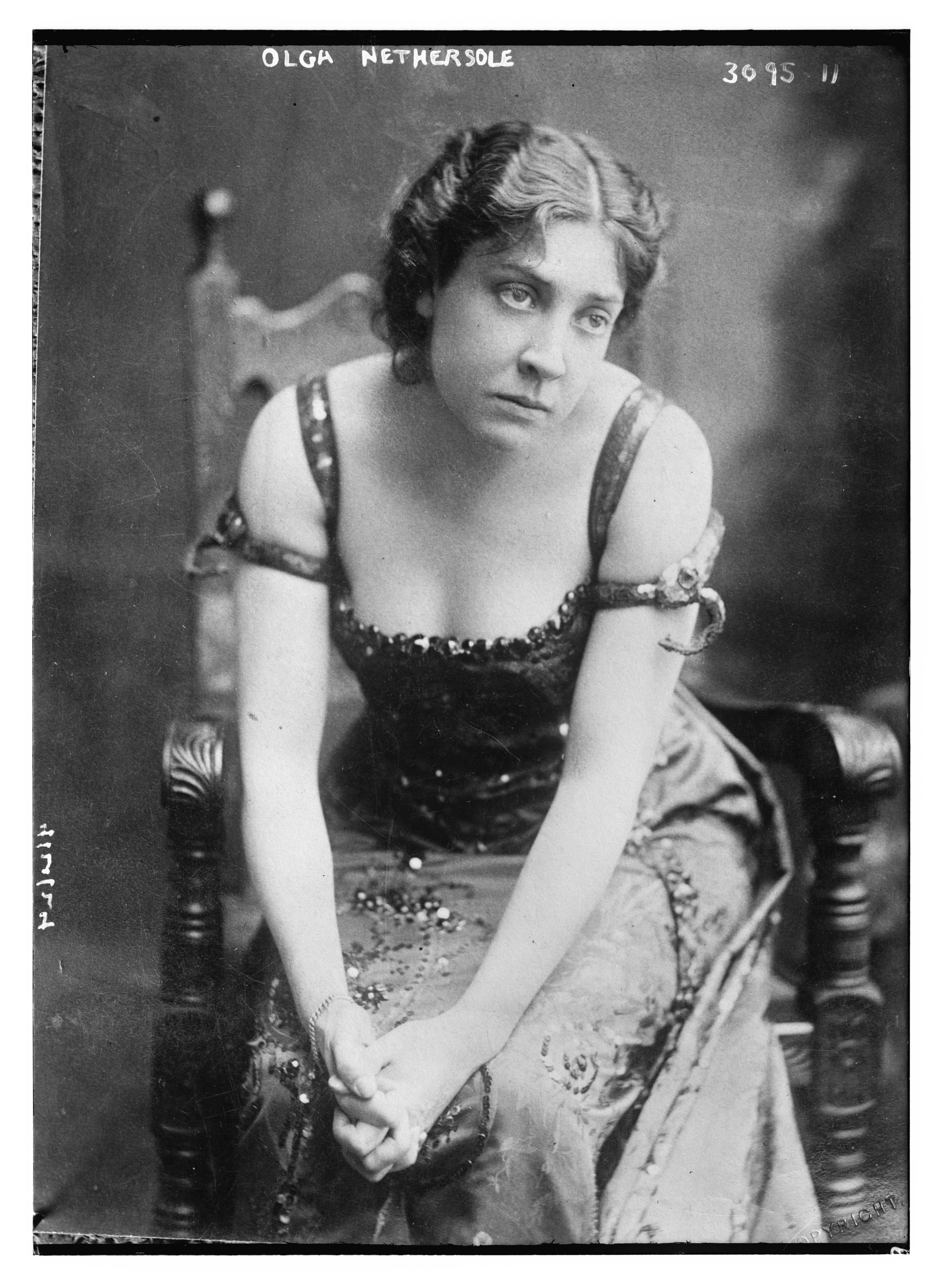 English actress Olga Nethersole